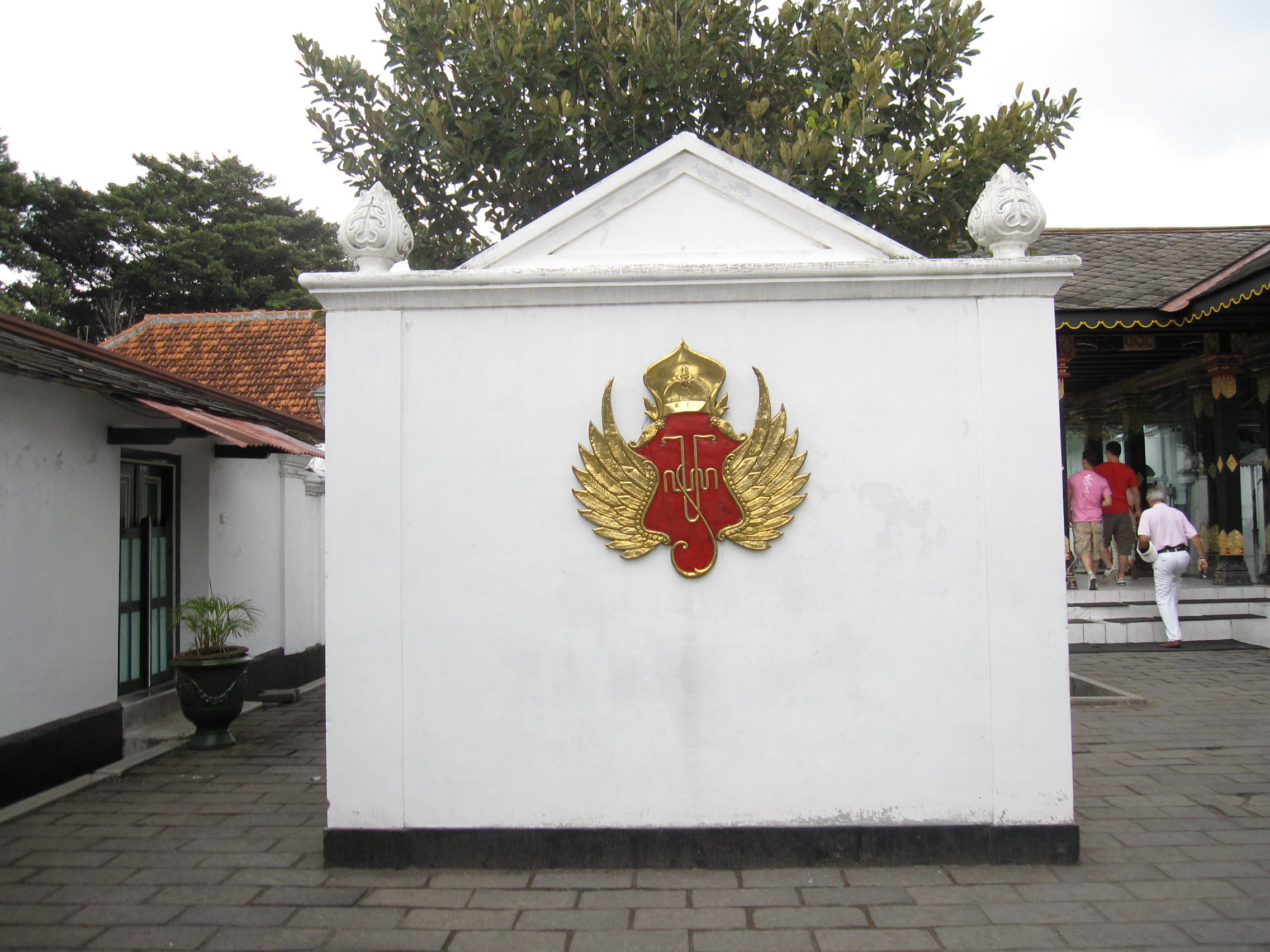 Kraton of Yogyakarta, Indonesia